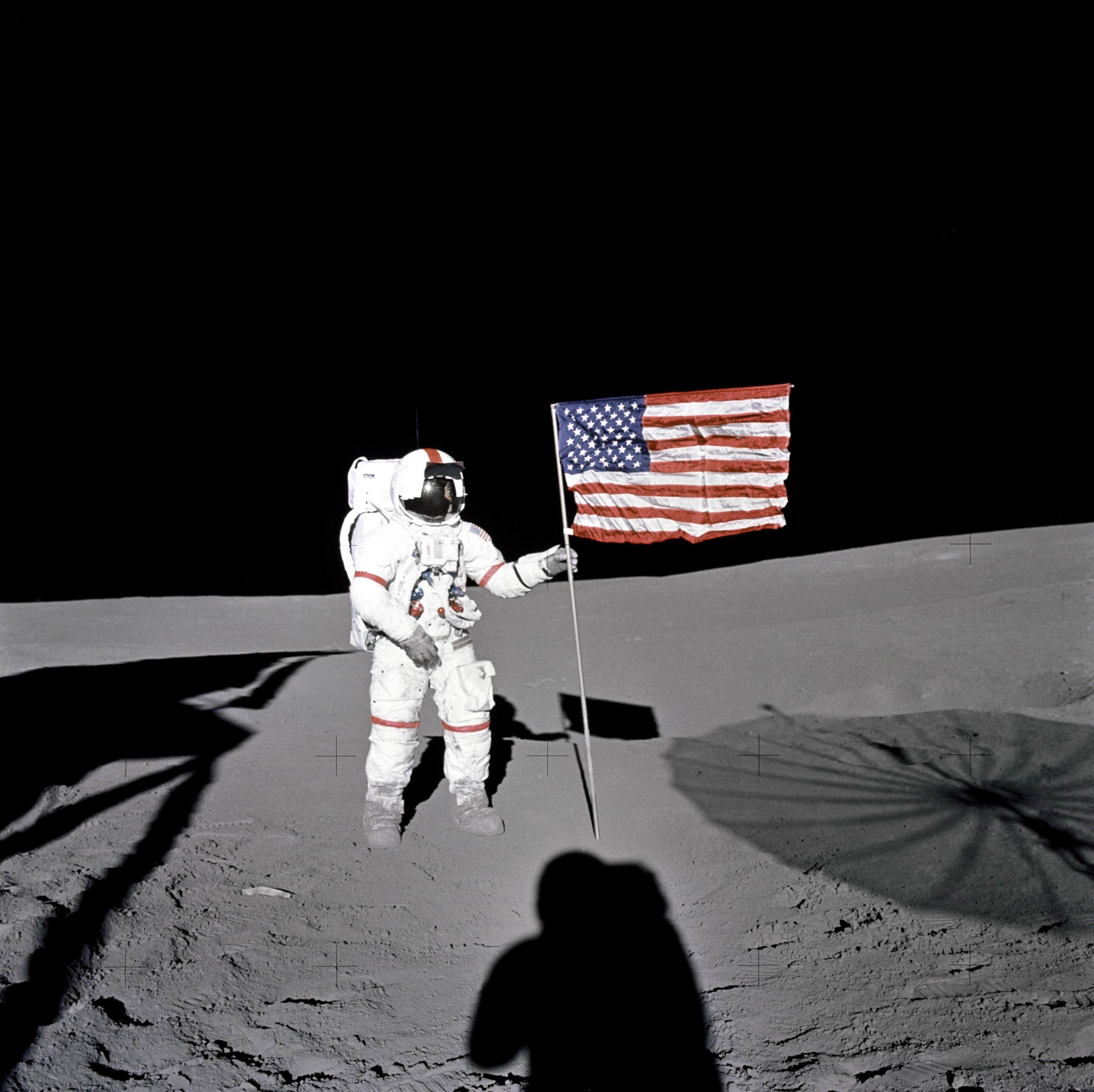 Astronaut Alan B. Shepard Jr., Apollo 14 Commander, stands by the U.S. flag on the lunar Fra Mauro Highlands during the early moments of the first extravehicular activity (EVA-1) of the mission. Shadows of the Lunar Module "Antares", astronaut Edgar D. Mitchell, Lunar Module pilot, and the erectable S-band Antenna surround the scene of the third American flag planting to be performed on the lunar surface.